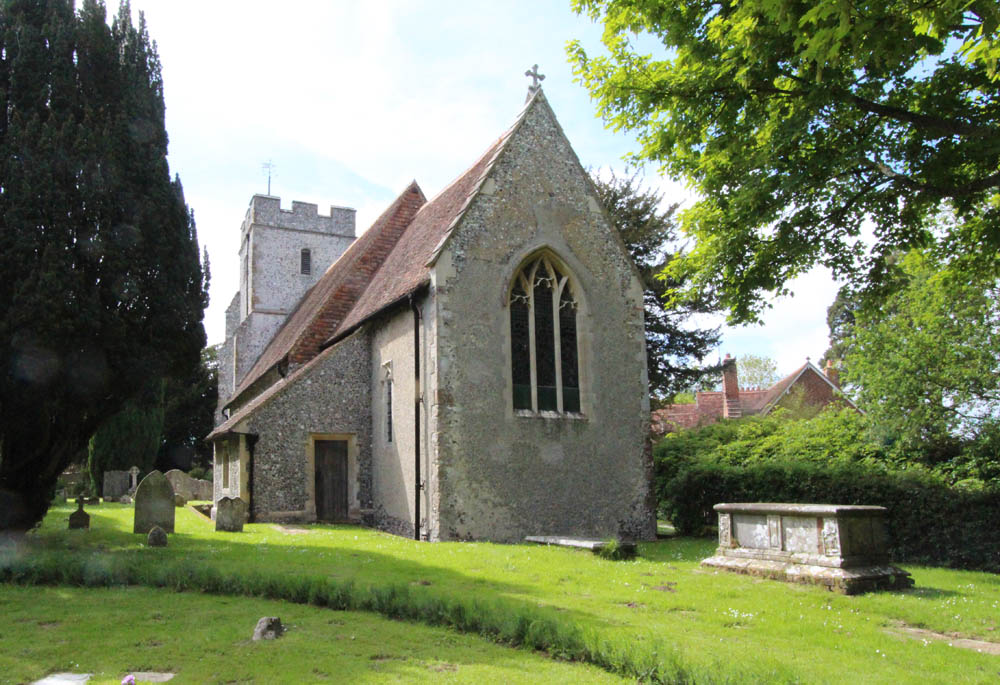 St Giles, Kingston